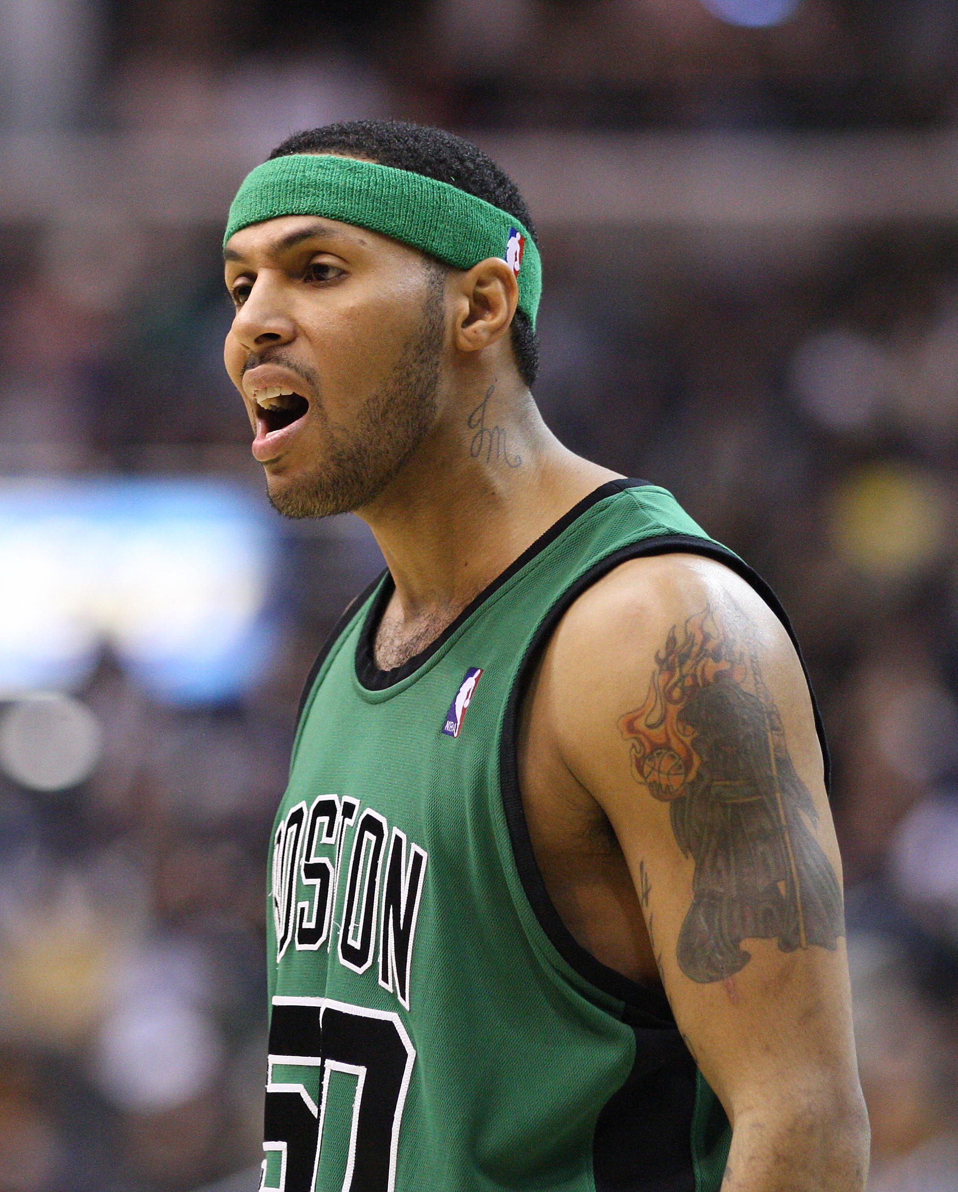 Eddie House